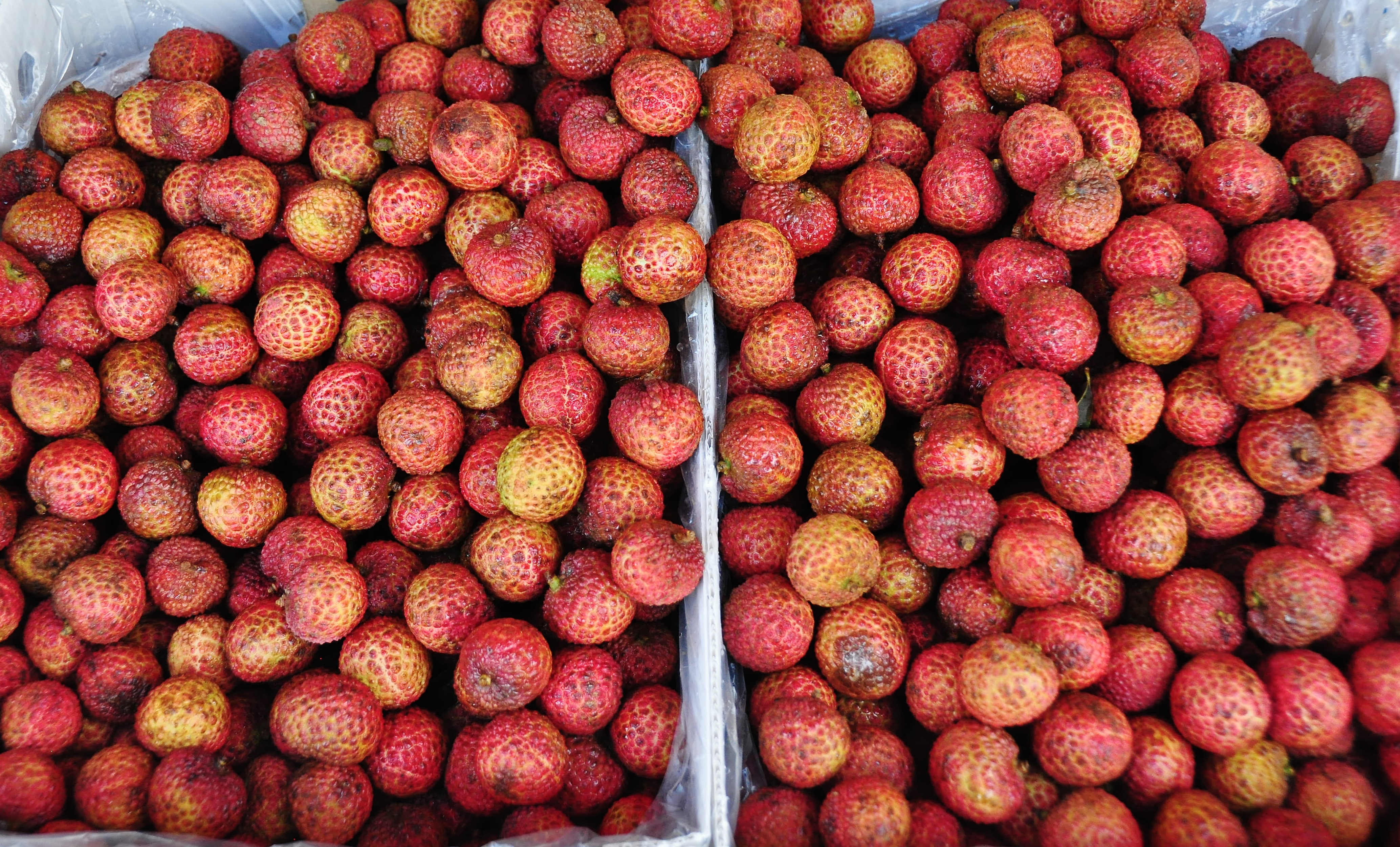 Lychee fruits at a market in Chinatown in Toronto